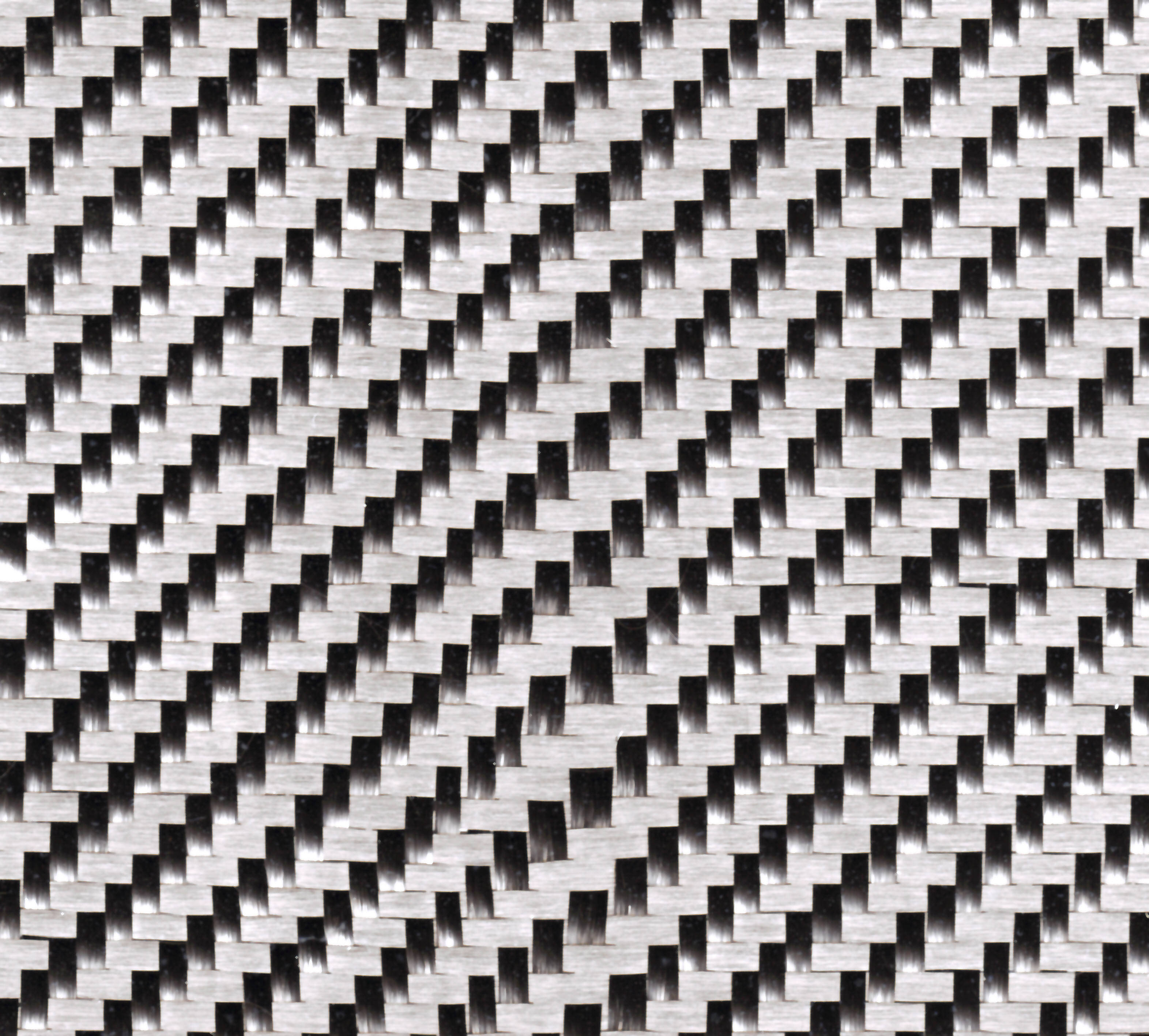 Carbon fabric, scanned at 1200dpi, 240g/m²